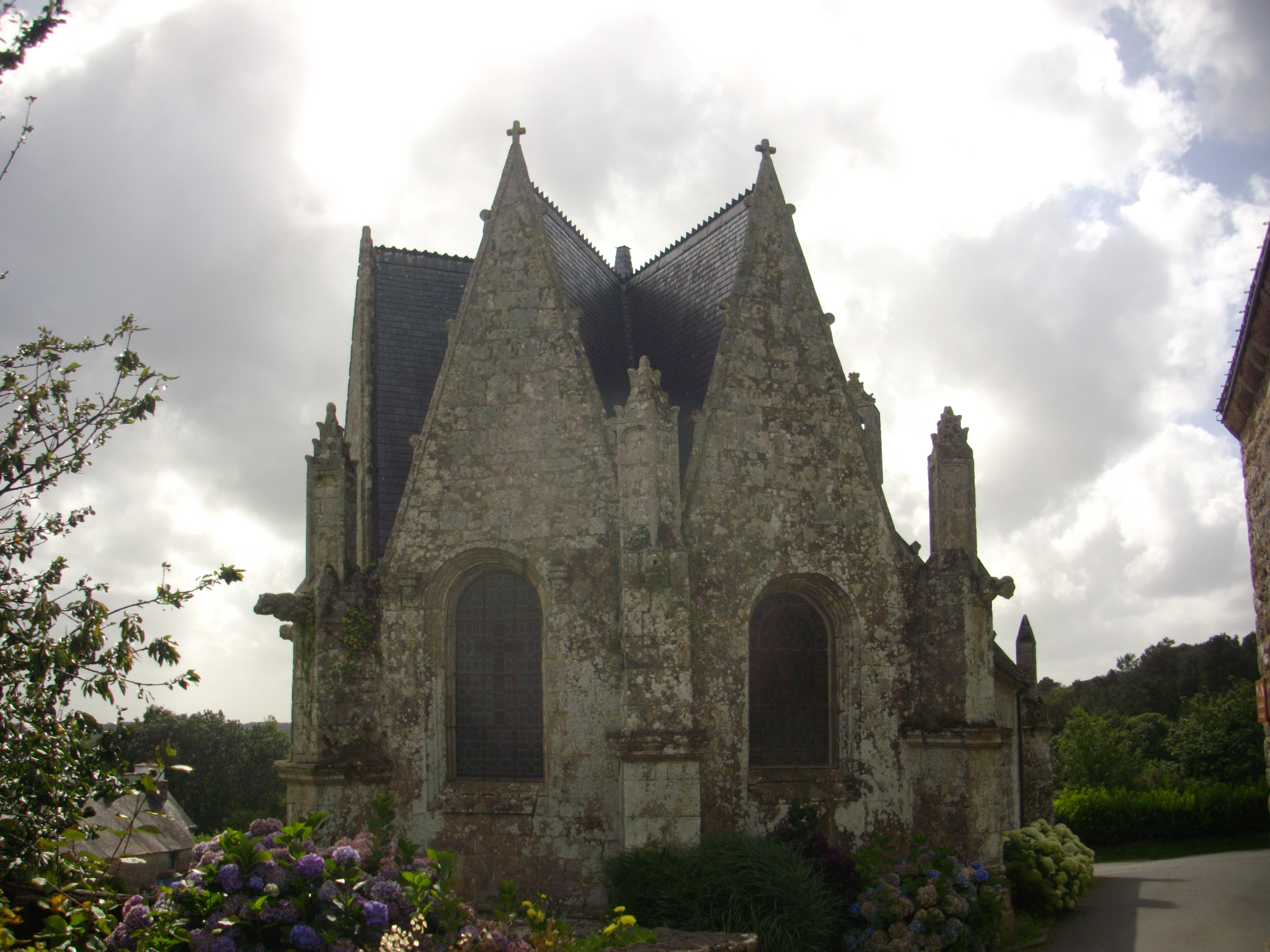 Apse of Saint Bridget chapel of Loperhet (Grand-Champ, Morbihan, France) .